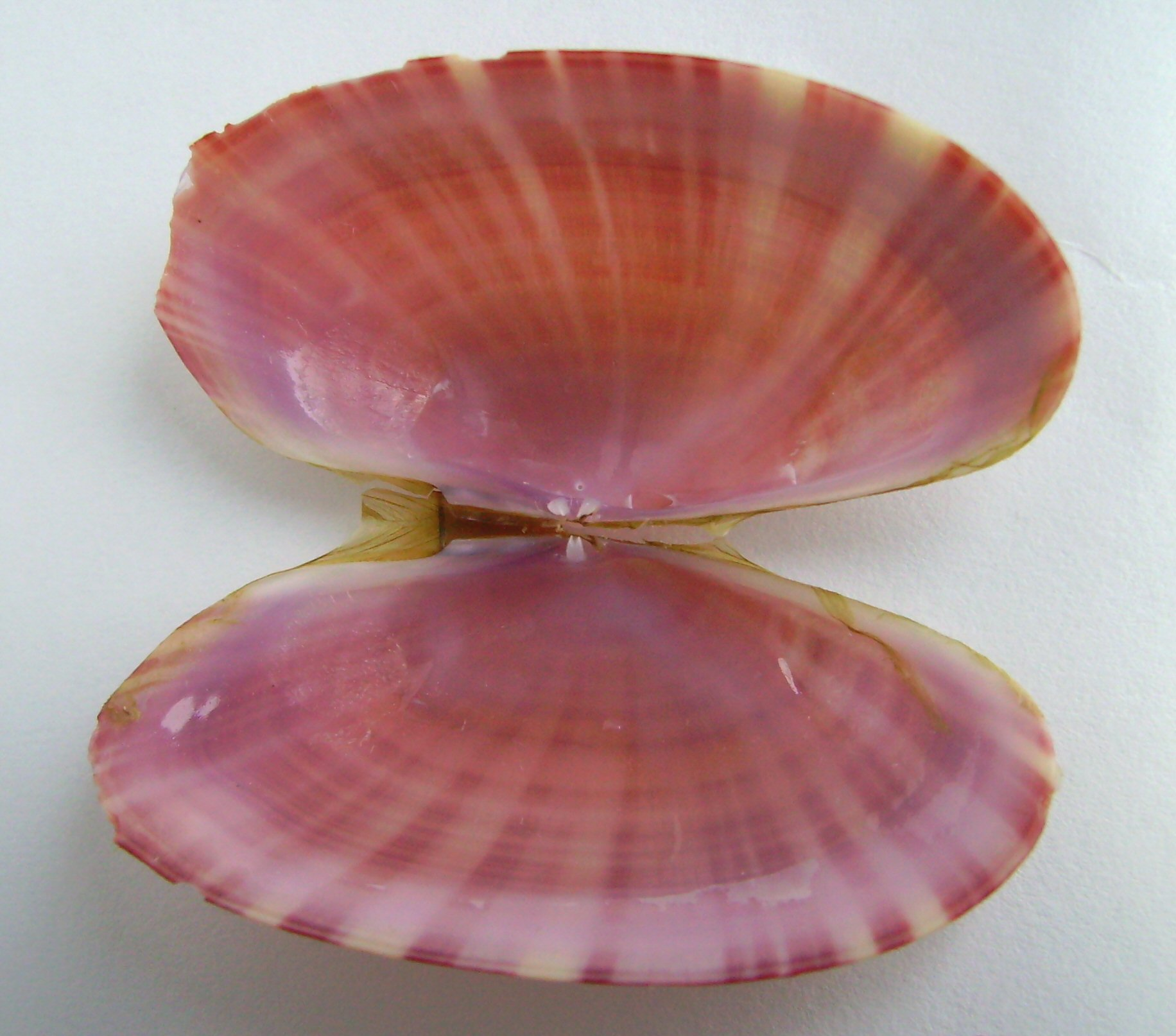 Gari convexa inside view, dredged from Northland east coast, New Zealand. This work has been released into the public domain by its author, Graham Bould. This applies worldwide. In some countries this may not be legally possible; if so: Graham Bould grants anyone the right to use this work for any purpose, without any conditions, unless such conditions are required by law.